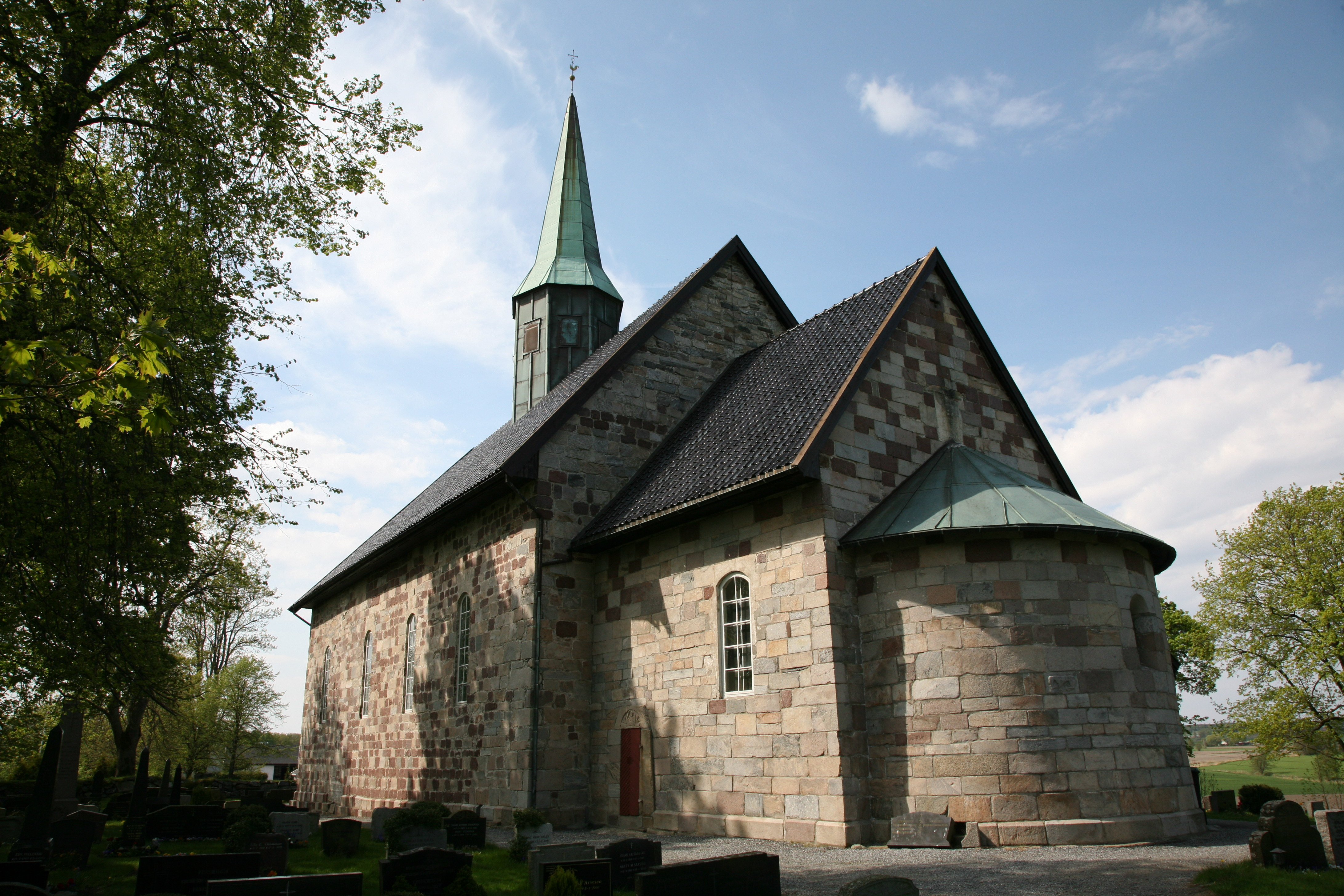 Rygge kirke in Rygge Østfold is a church buildt around 1170.